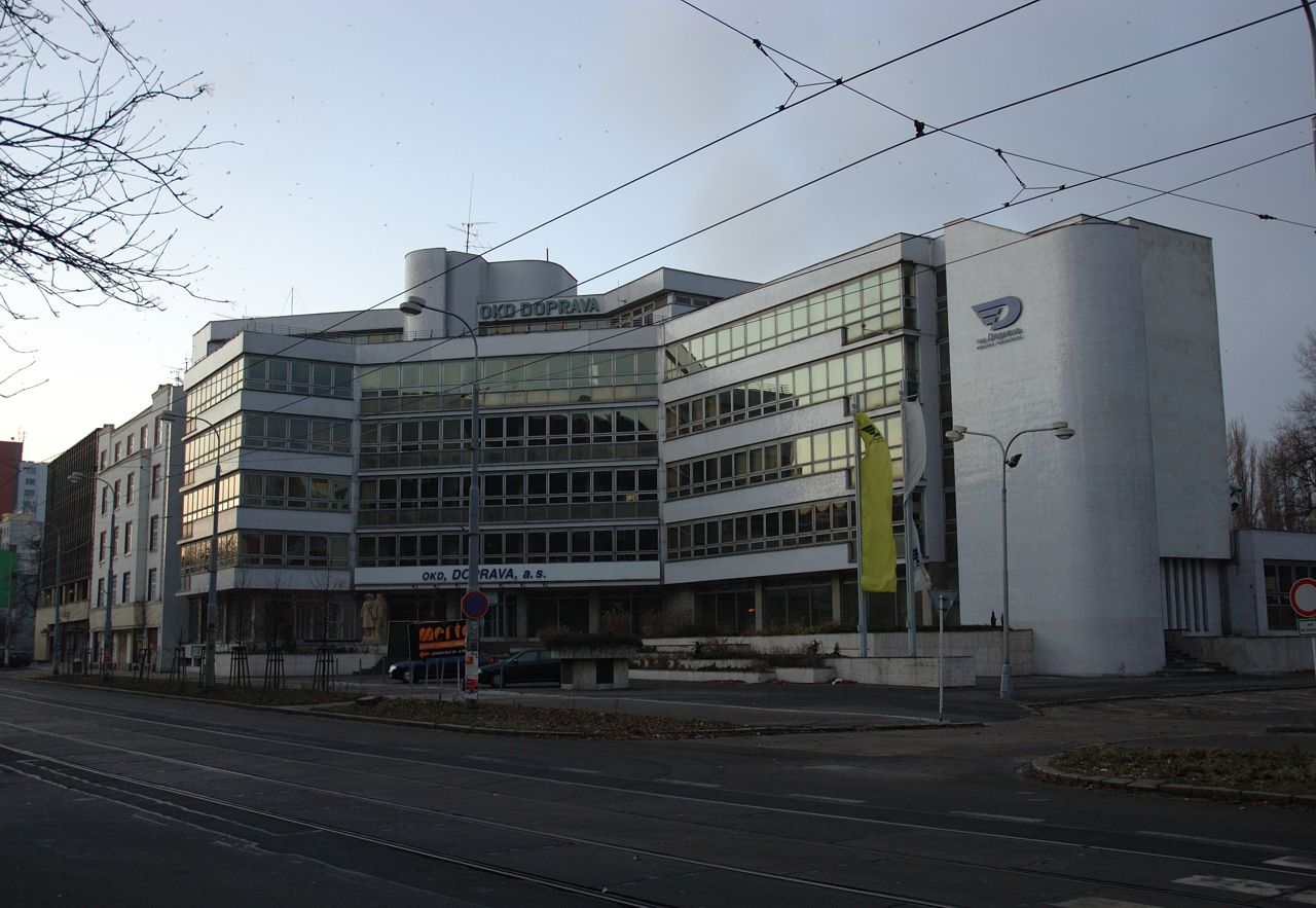 Building of transportation company OKD Doprava, Ostrava, Czech Republic